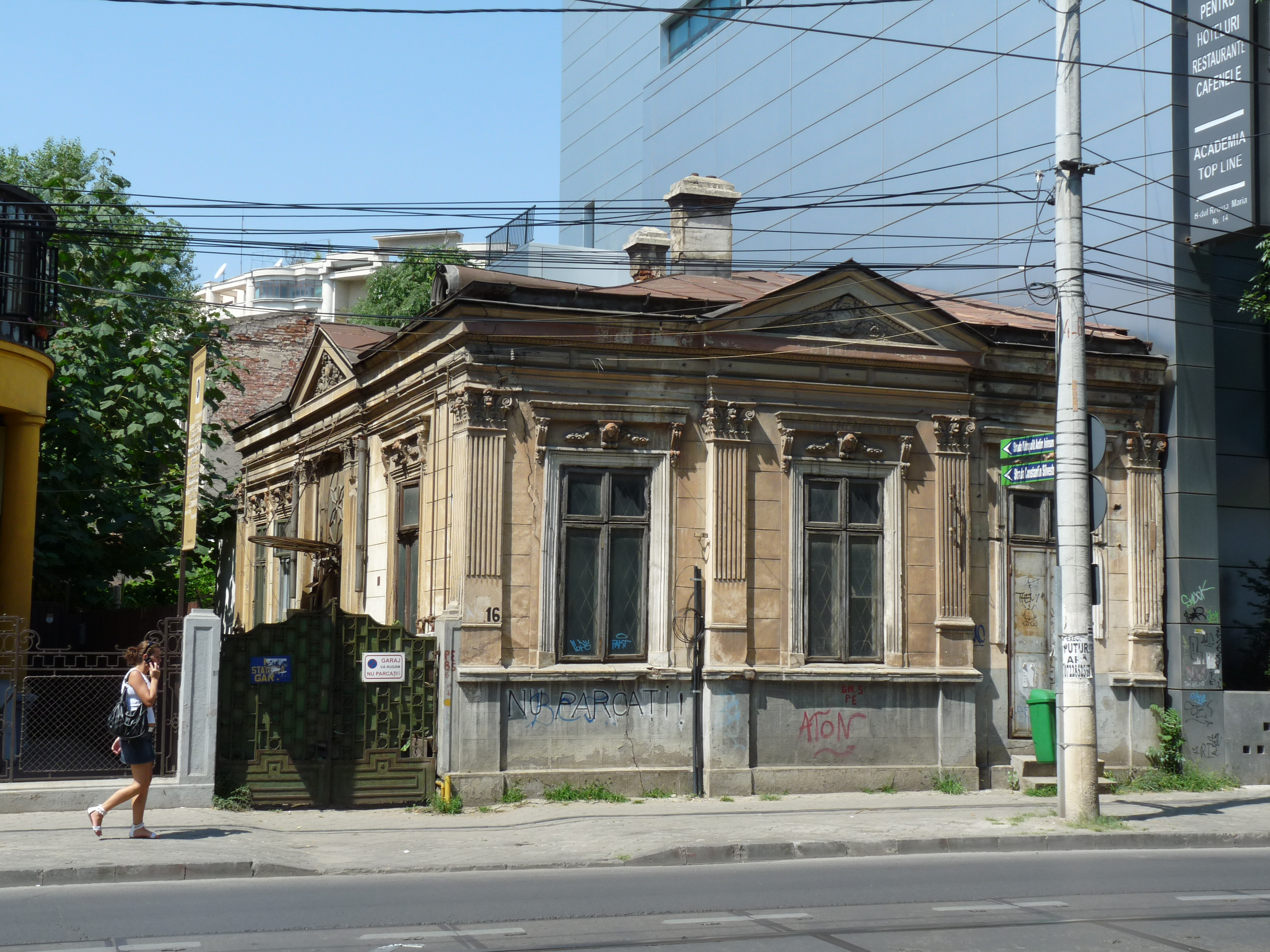 Historic building in Bucharest, Romania, on Regina Maria boulevard 16Română: Clădire istorică din Bucureşti, România, pe bulevardul Regina Maria 16